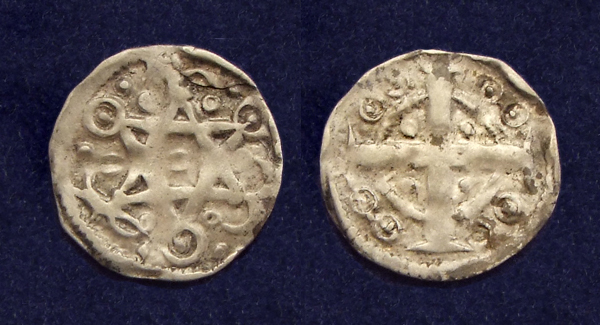 County of Flanders, AR maille, struck in Ypres under Baldwin IX, Count of Flanders.